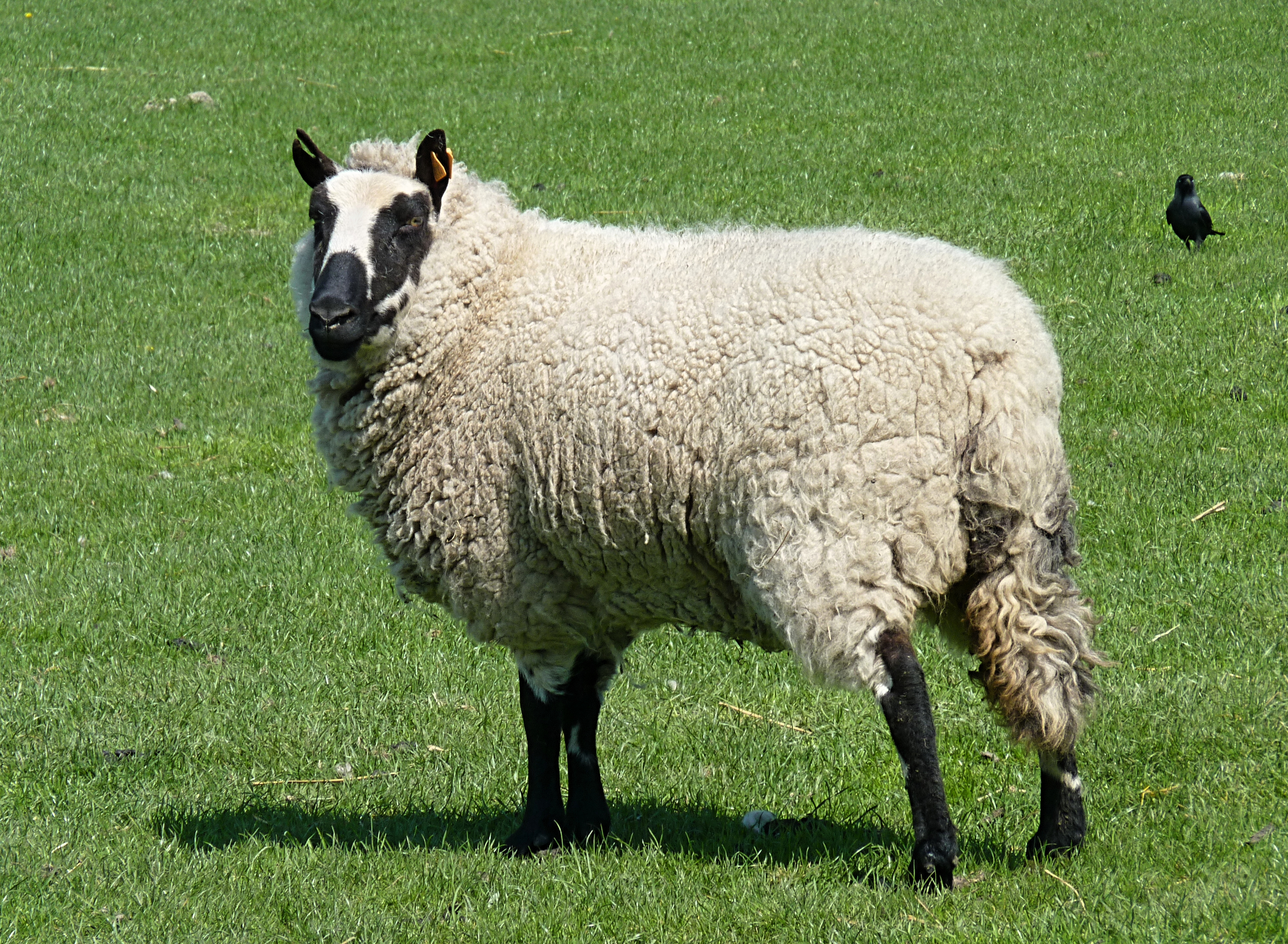 Kerry Hill sheep in Mouscron, Belgium.